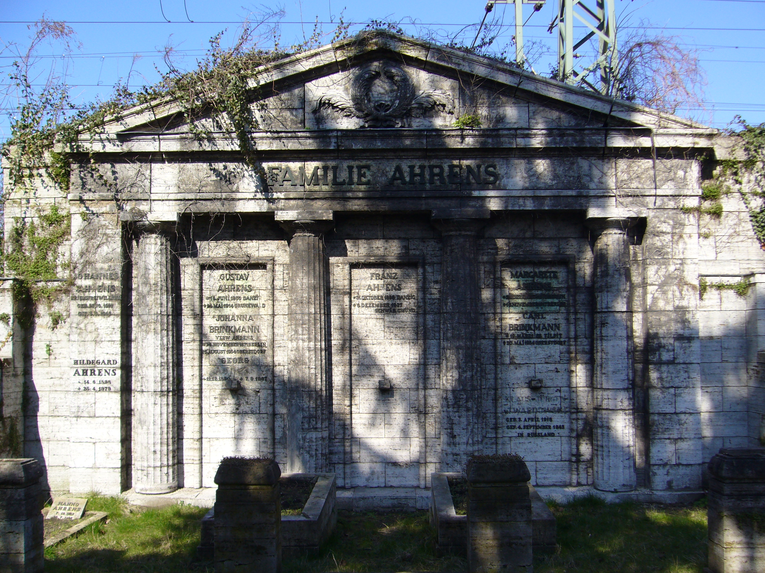 Ahrens family grave